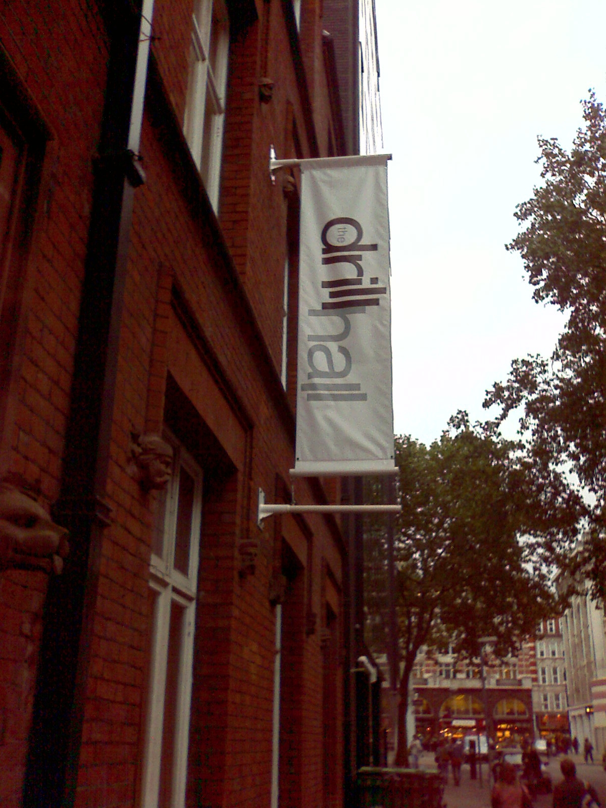 Outside of the drill hall, London